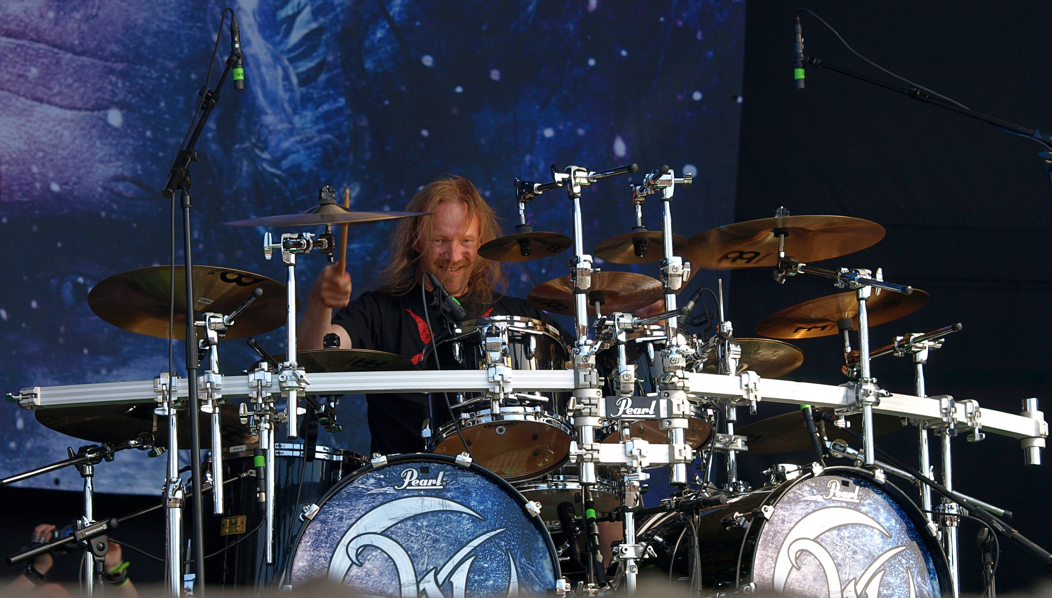 Finnish metal band Wintersun live at Tuska Open Air 2013